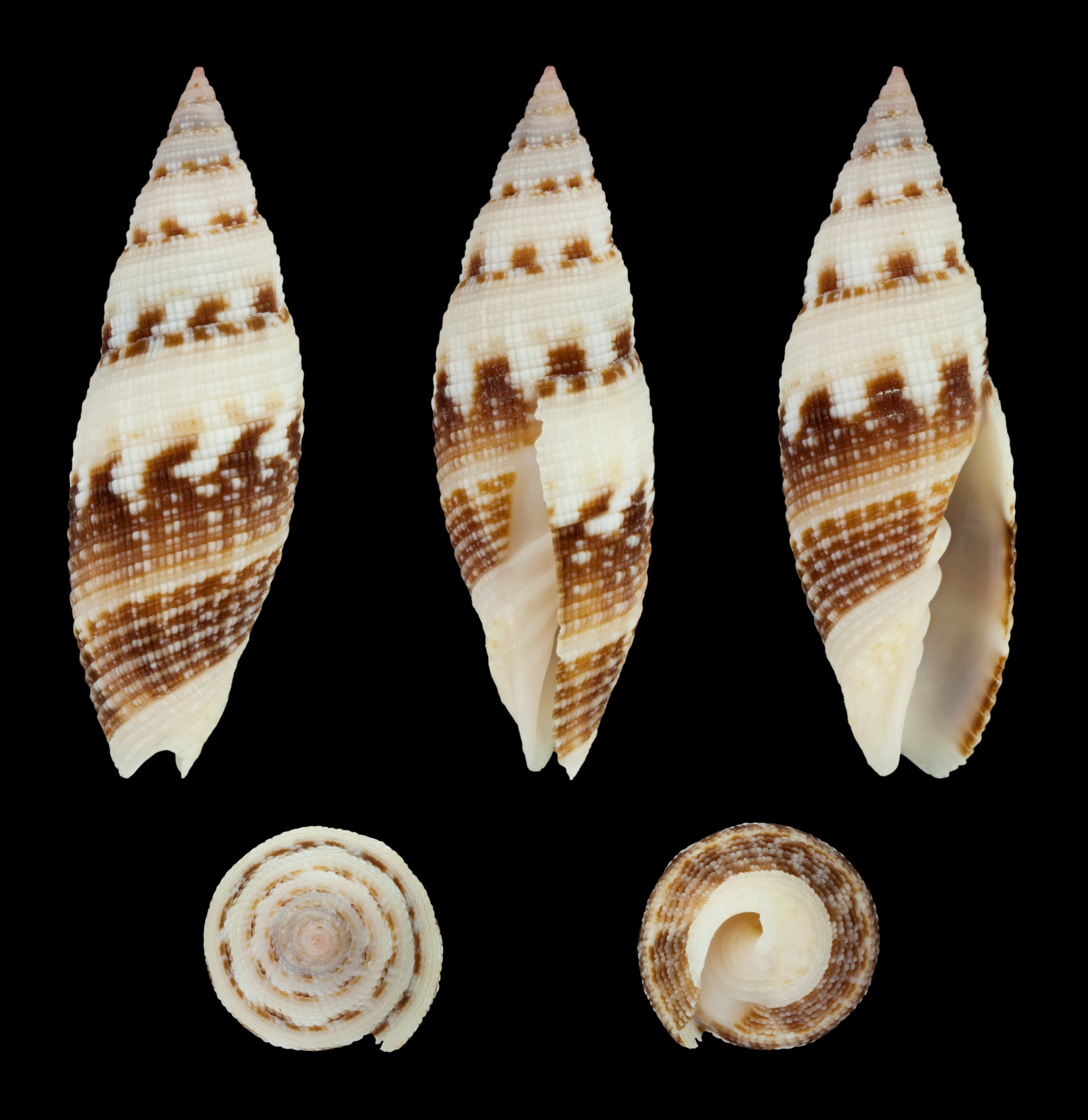 Neocancilla clathrus (Gmelin, 1791), Clathrus Mitre; Length 3.3 cm; Originating from the Sulu Sea, Philippines; Shell of own collection, therefore not geocoded.